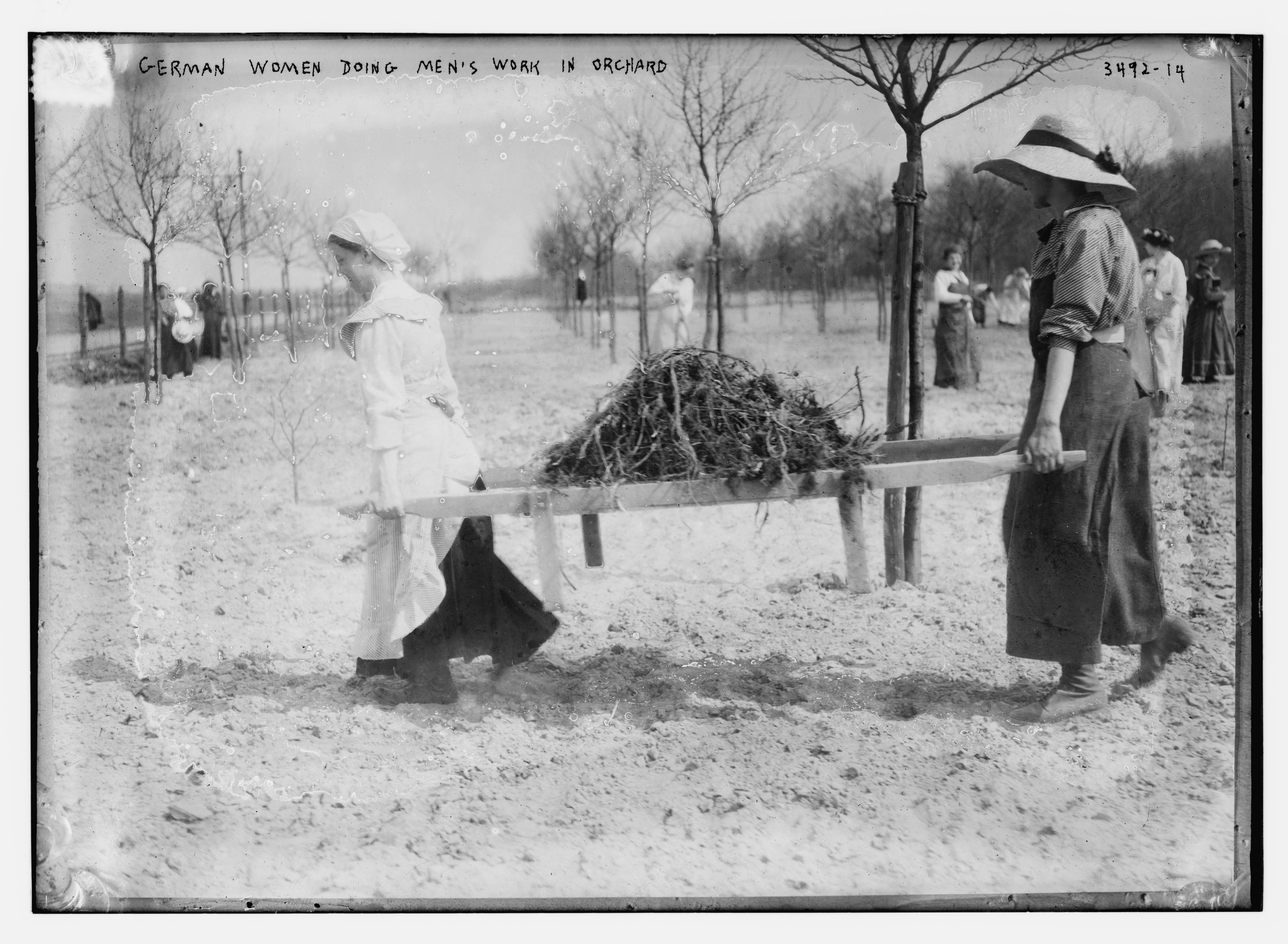 Title: German women doing men's work in orchard Abstract/medium: 1 negative : glass ; 5 x 7 in. or smaller.